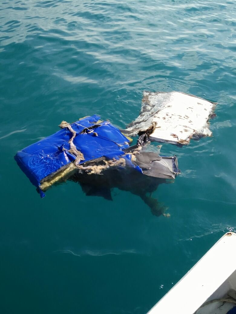 Wreckage of the crash in Batam, 2016